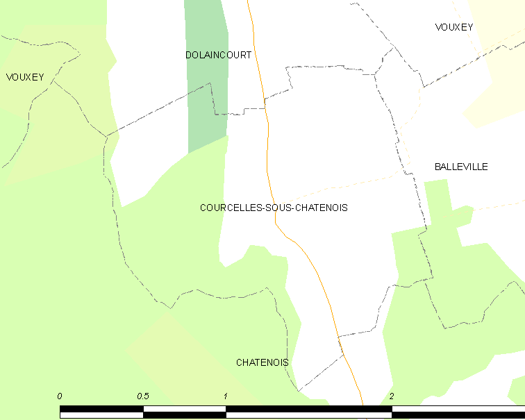 Map of French municipality Courcelles-sous-Châtenois